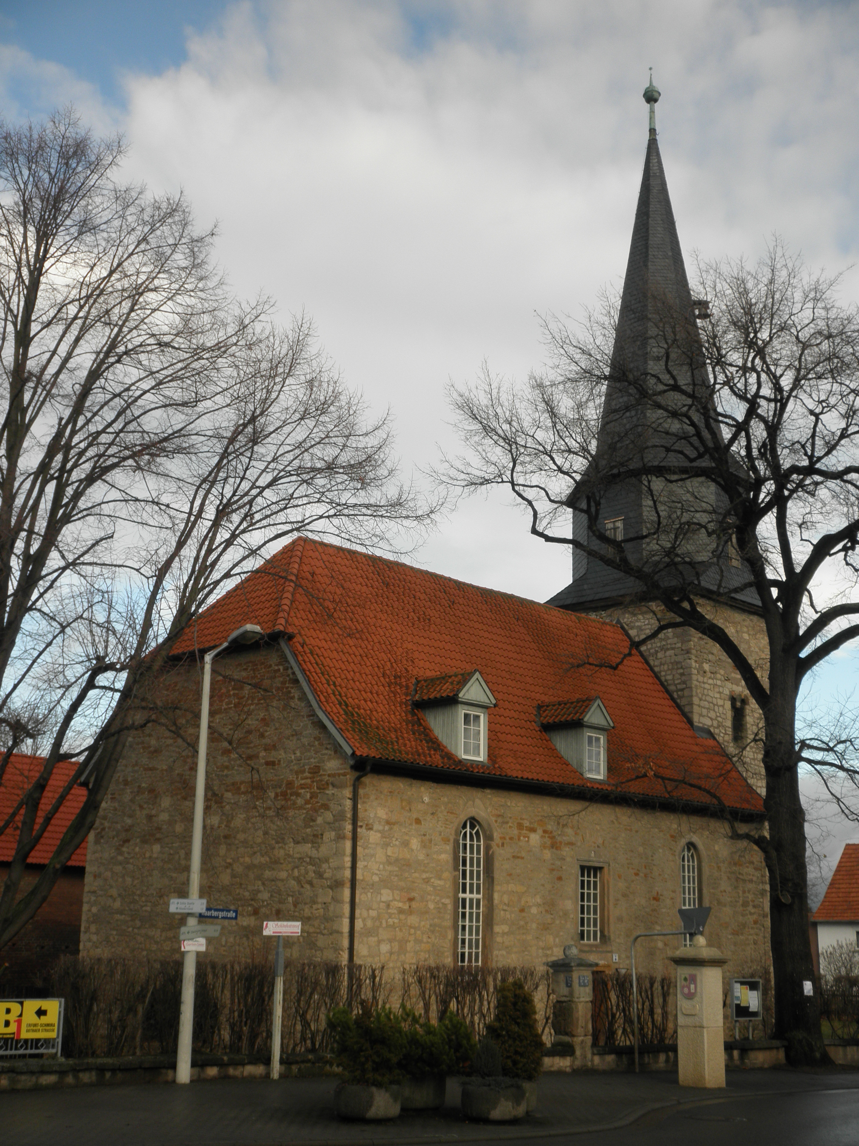 Church in Windischholzhausen (Erfurt) in Thuringia